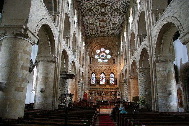 Holy Cross nave Great Norman arcades, triforium and clerestory in Holy Cross Church